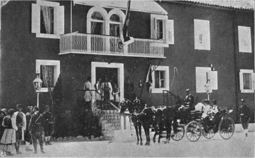 Original description: "The Royal Palace: Cettinje"